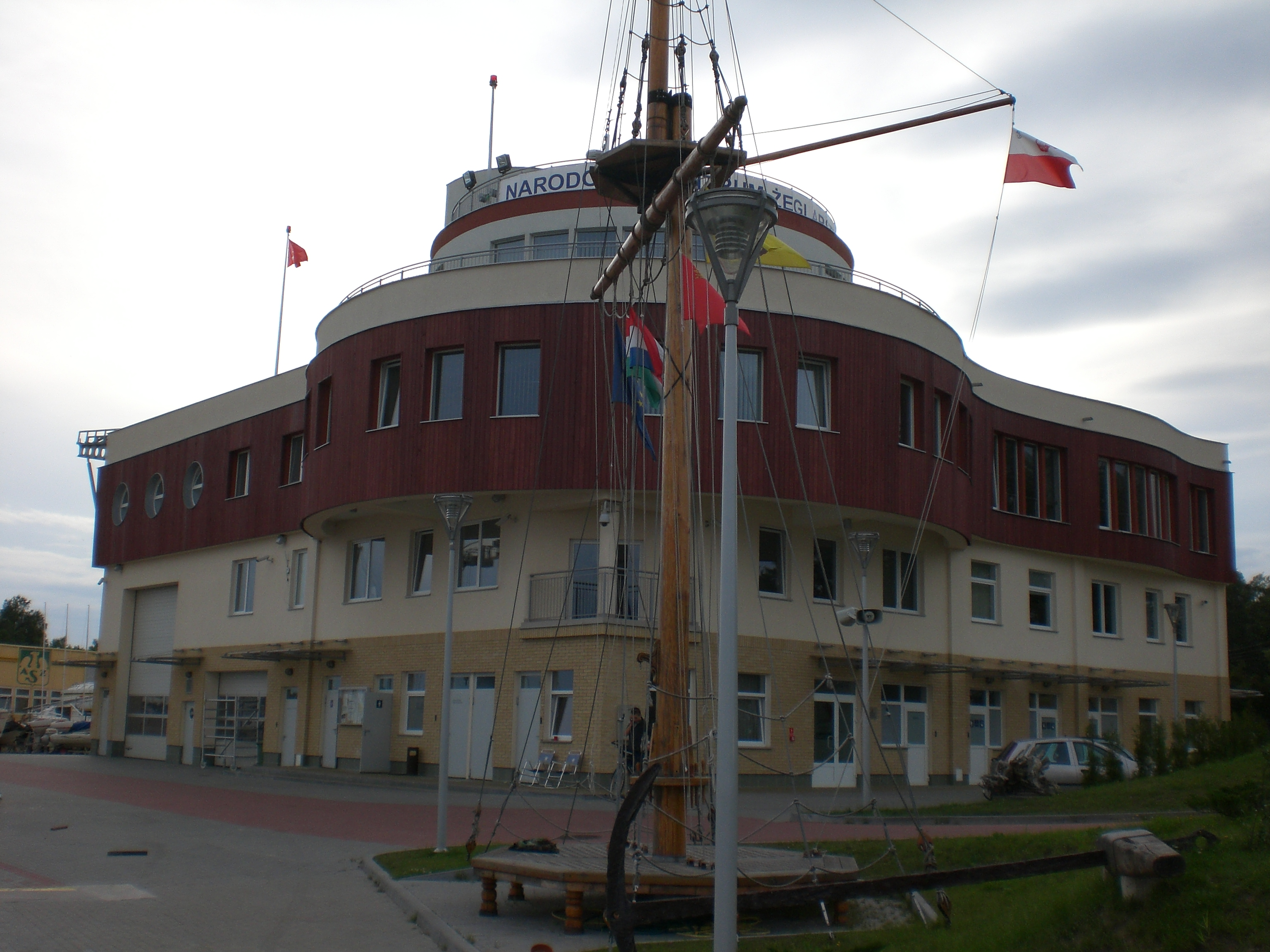 Gdańsk Górki Zachodnie